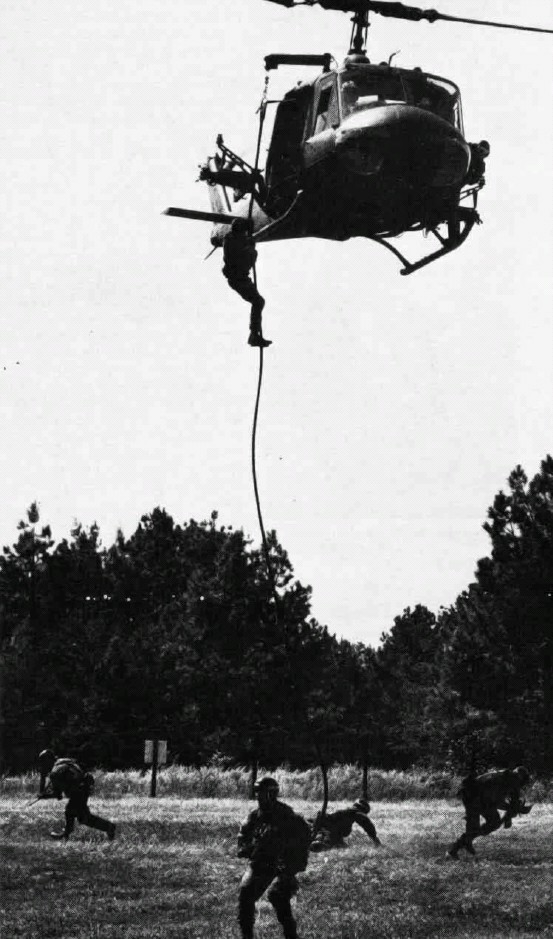 U.S. Navy SEALs debarking from a Bell HH-1K Huey helicopter of U.S. Naval Reserve light helicopter attack squadron HAL-4 Red Wolves in 1985. HAL-4 was established on 1 July 1976 at Naval Air Station Norfolk, Virginia (USA), and provided aviation support for Naval Special Warfare (NSW) and Explosive Ordnance Disposal (EOD) teams of the U.S. Navy.